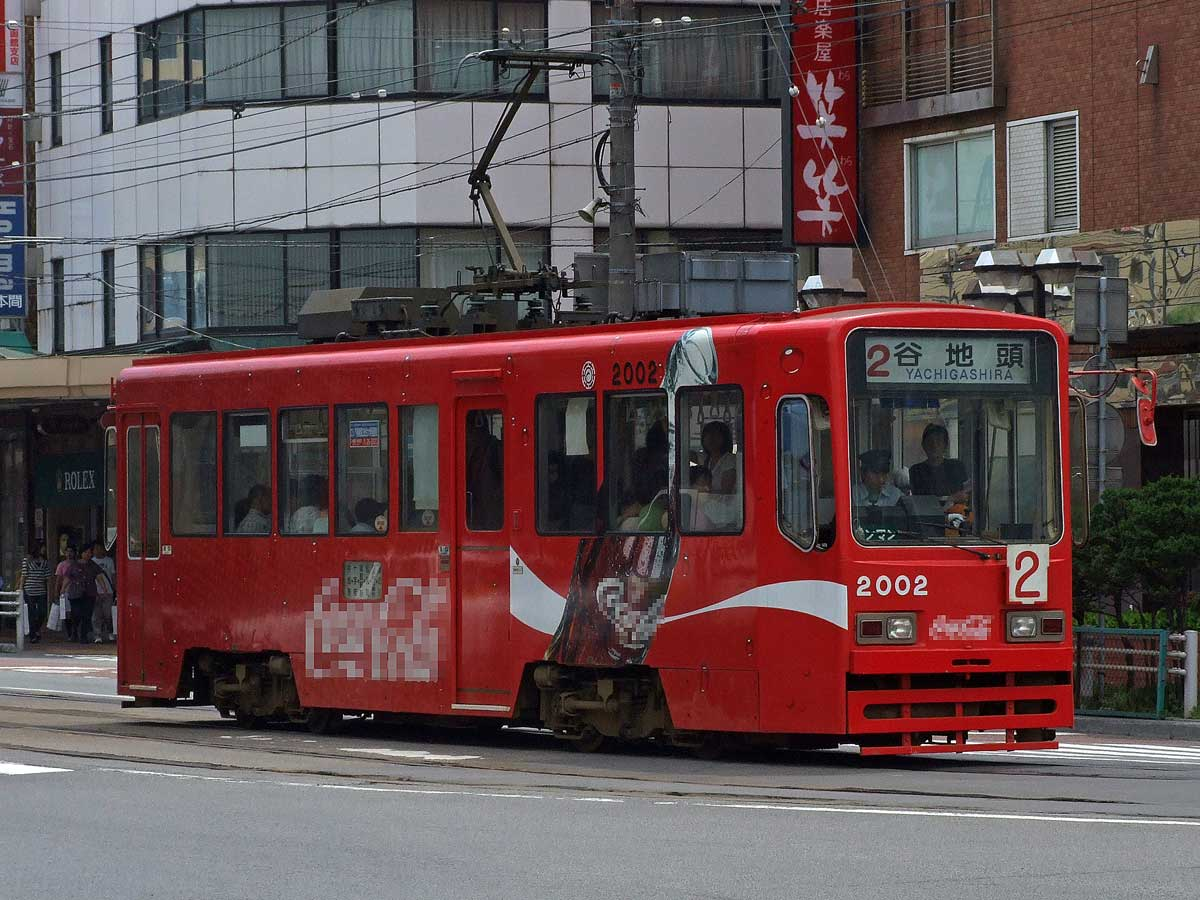 Type2000,Hakodate city transportation bureau,Japan